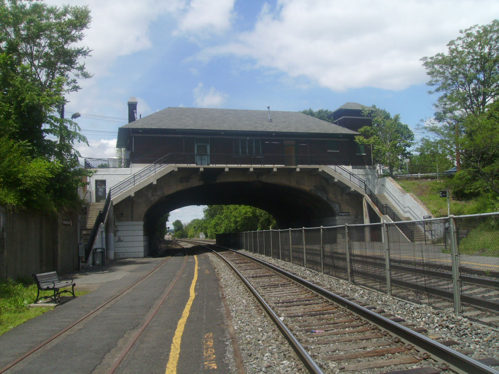 The Kingsland New Jersey Transit Station in the Kingsland section of Lyndhurst, New Jersey. The former station depot, built by the Delaware, Lackawanna and Western Railroad, sits atop the bridge, which also holds New Jersey Route 17.